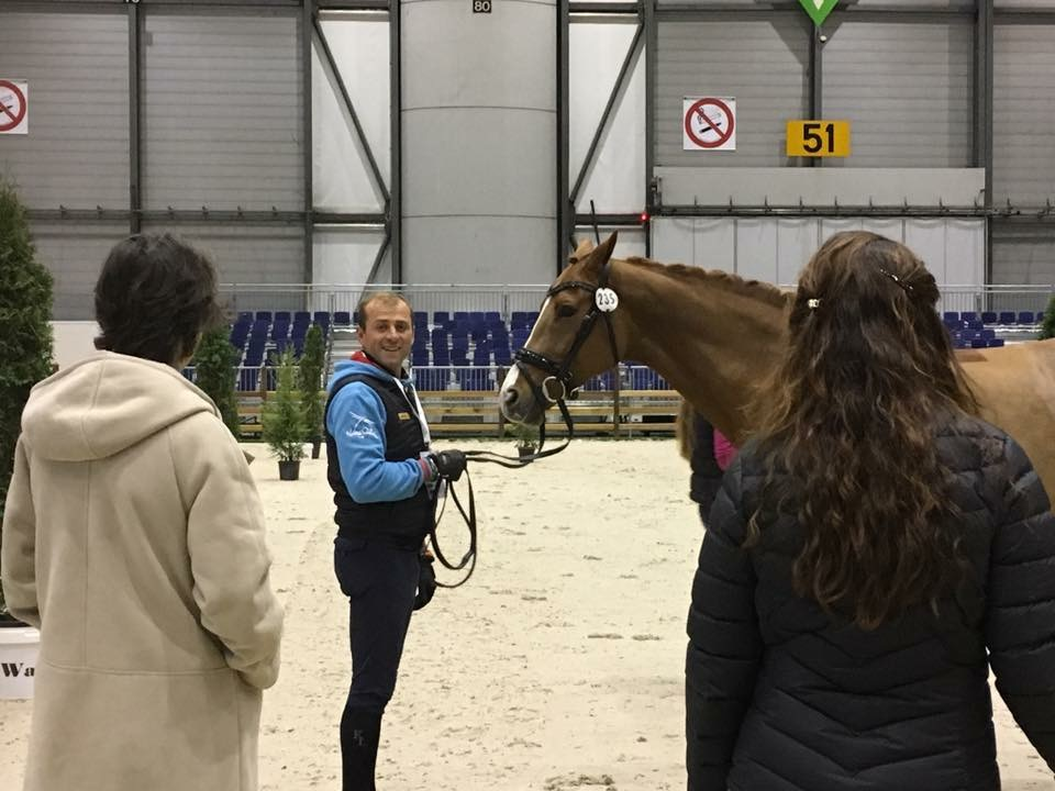 Vet Check: Pierre Volla, CDI 4* CHI Geneve 2016